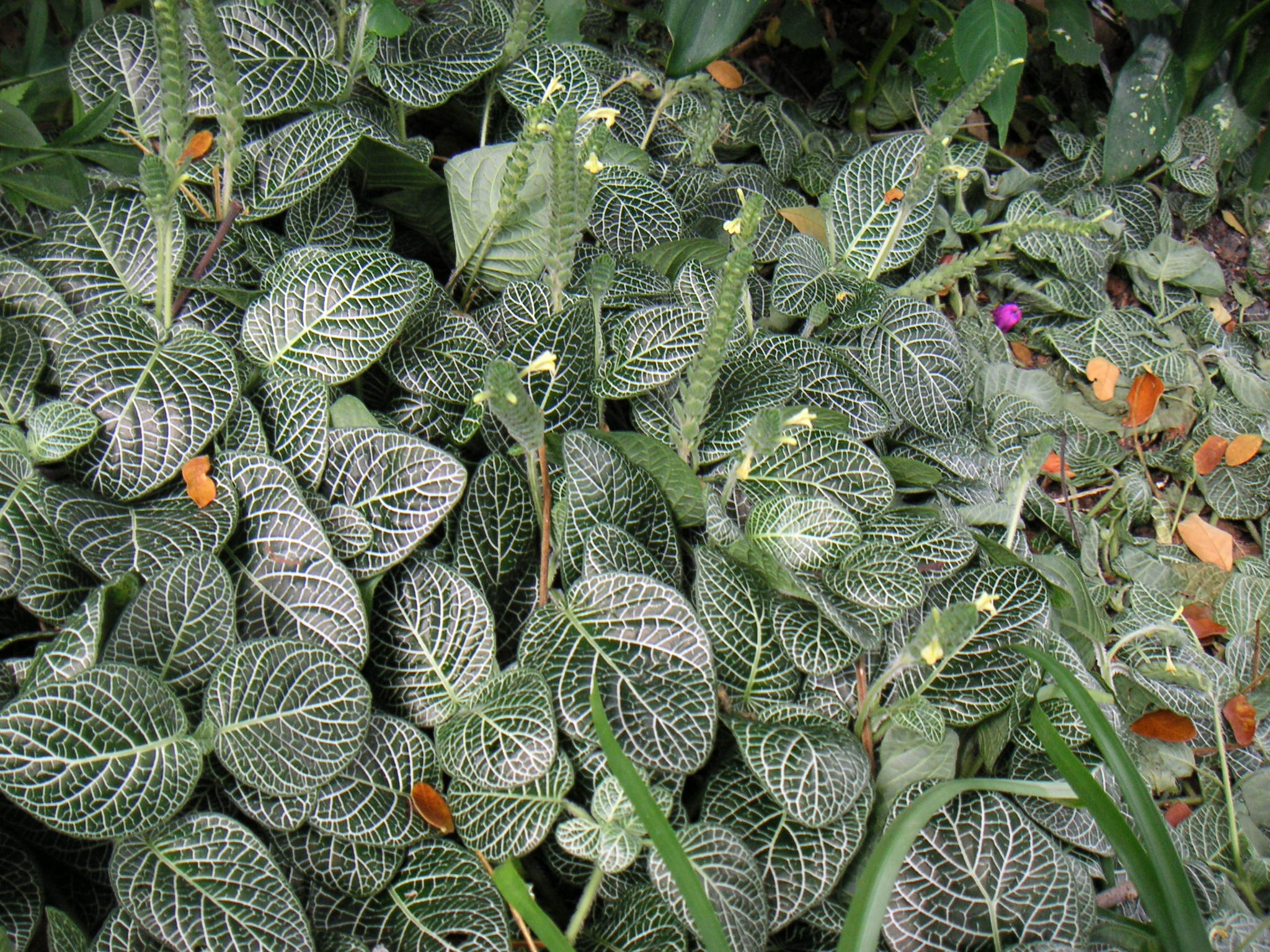 Fittonia albivenis (syn. F. verschaffeltii), Acanthaceae, Cali / Kolumbien